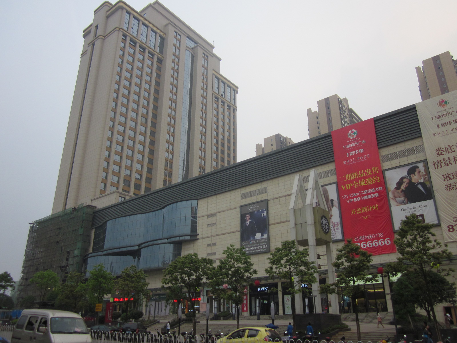 Buildings near the Loudi Commercial Pedestrian Street.